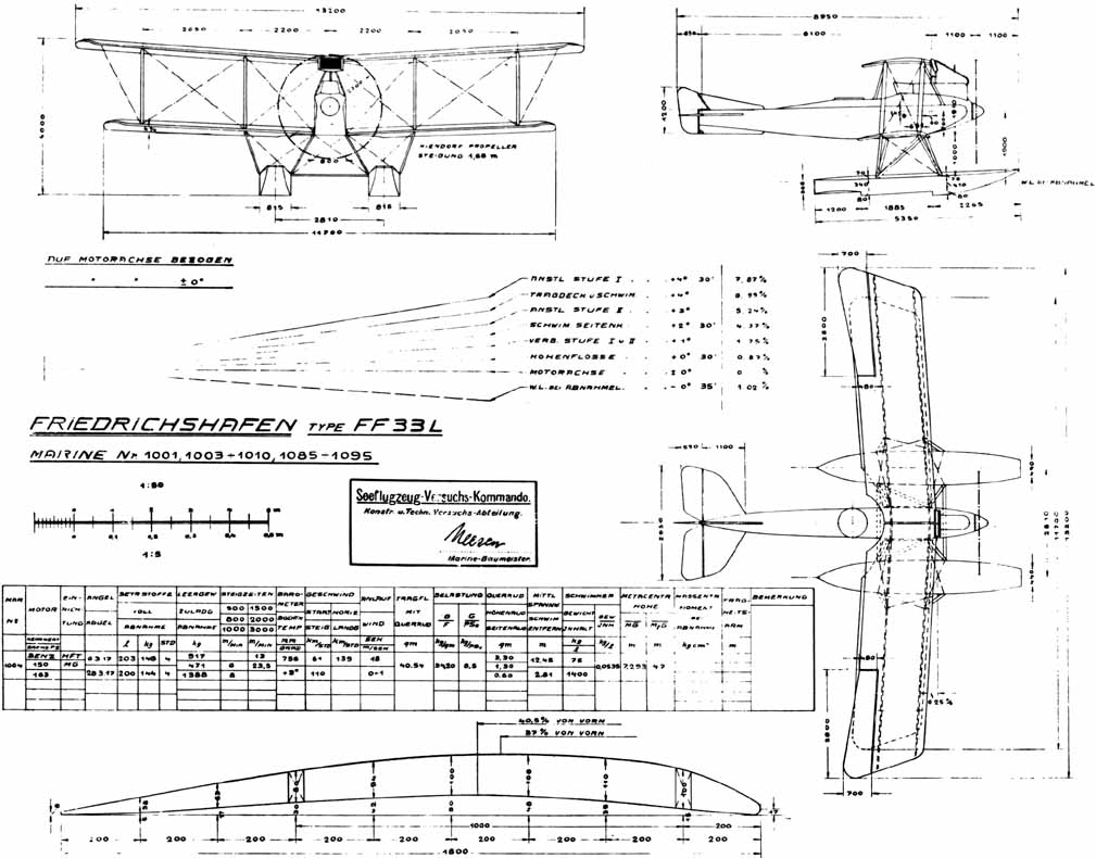 Friedrichshafen FF.33L German World War 1 reconnaissance seaplane